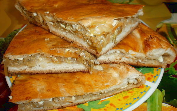 Pirog (Russian pie) filled with stewed cabbage and onion